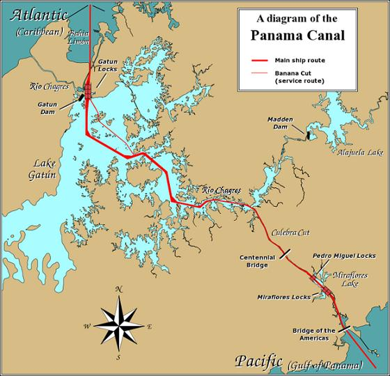 A diagram illustrating the layout of the Panama Canal (in quick JPEG format, auto-resizes to fit). Due to the shape of the Isthmus of Panama, the Pacific end of the canal is actually the south-east end, and the Caribbean / Atlantic end is at the north-west. From the Pacific side, the Miraflores and Pedro Miguel locks (with two and one stages respectively) lead up to the highest level of the canal, 26 metres (85 feet) above sea level. The Culebra Cut (or Gaillard Cut) leads to Gatún Lake, created by damming the Chagres River; then the Gatún Locks lead back down to sea level in Limón Bay. The heavy red line shows the ship route. The narrower red line in Gatún Lake is the Banana Cut, a shortcut used by canal boats and yachts.